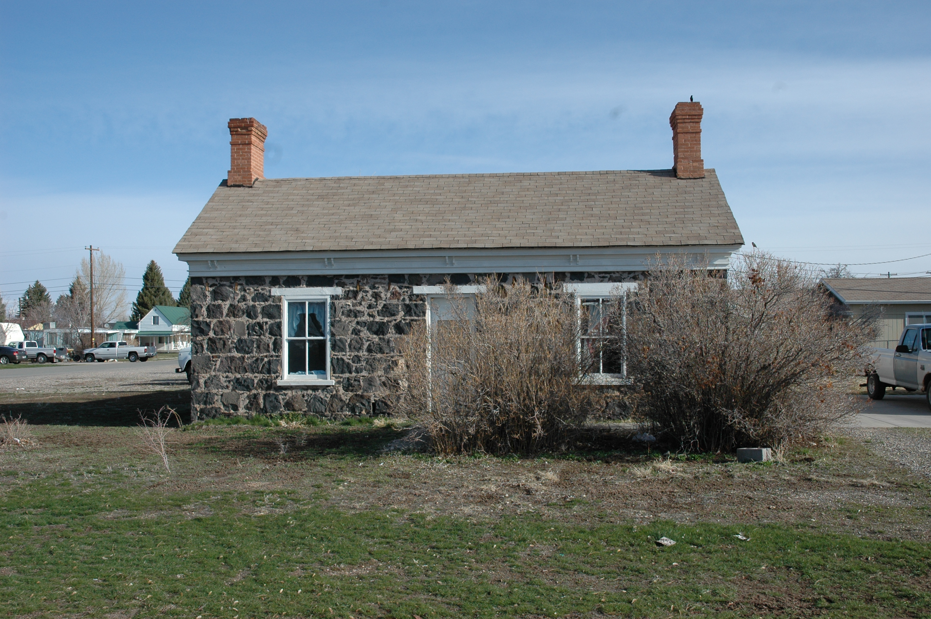 The William Burt House, a historic home in Beaver, Utah, United States.